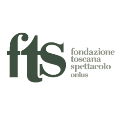 New logo image of FTS onlus.